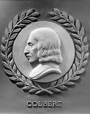 Jean Baptiste Colbert marble bas-relief, one of 23 reliefs of great historical lawgivers in the chamber of the U.S. House of Representatives in the United States Capitol. Sculpted by Laura Gardin Fraser in 1950. Diameter 28 inches in diameter.